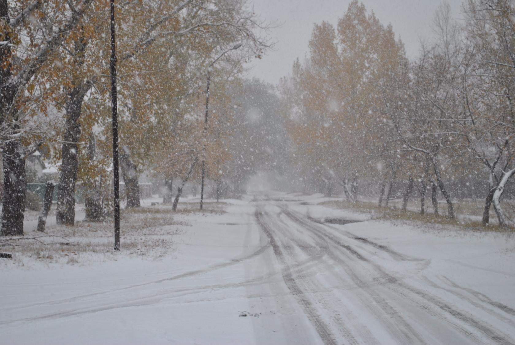 Снег в поселке